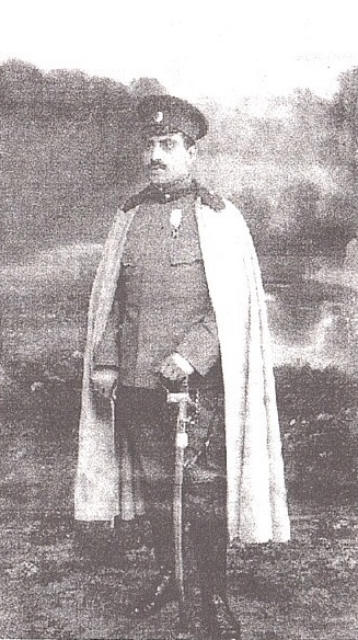 Garegin Nzhdeh in 1913.